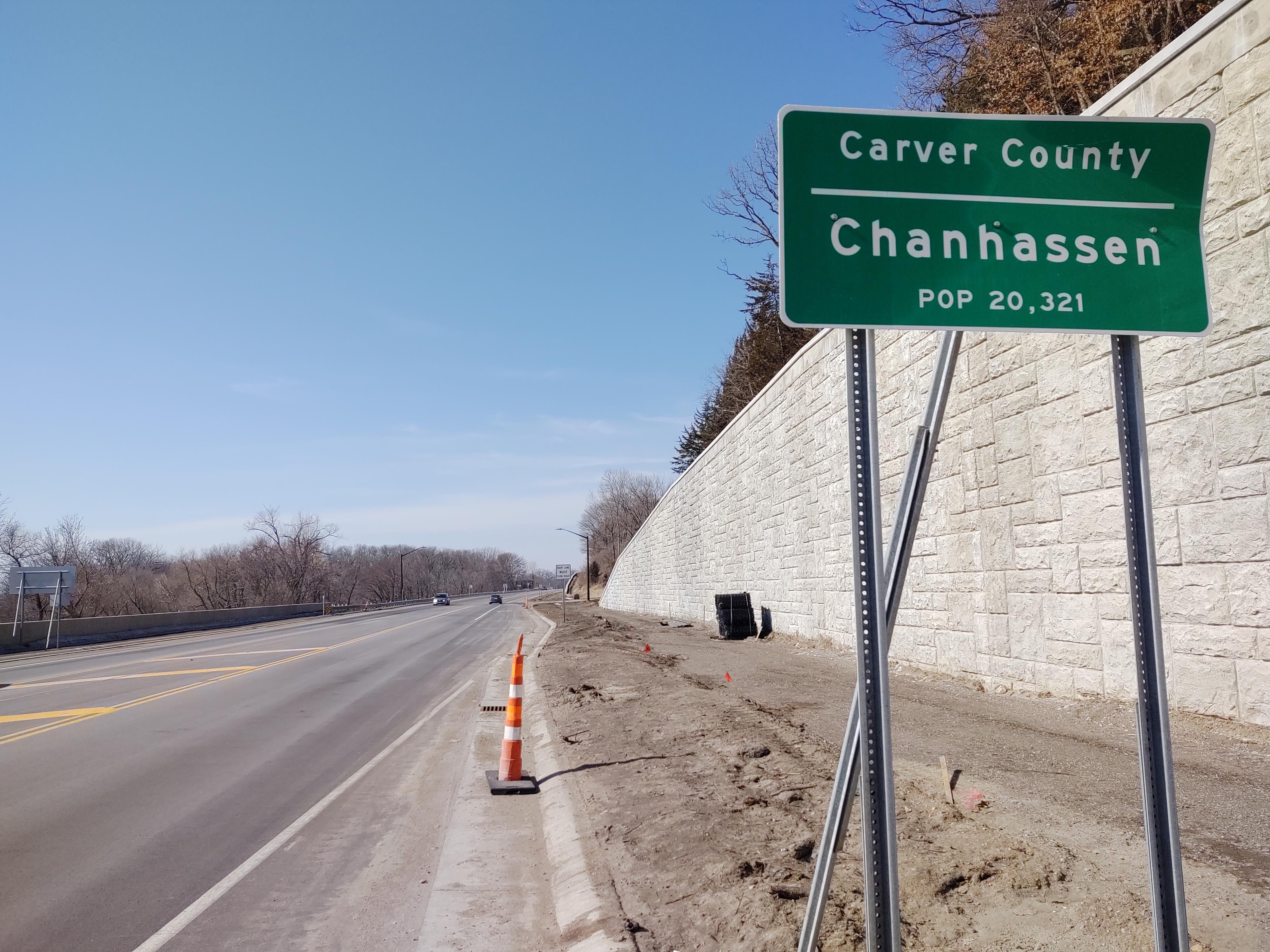 Looking west on Flying Cloud Drive.